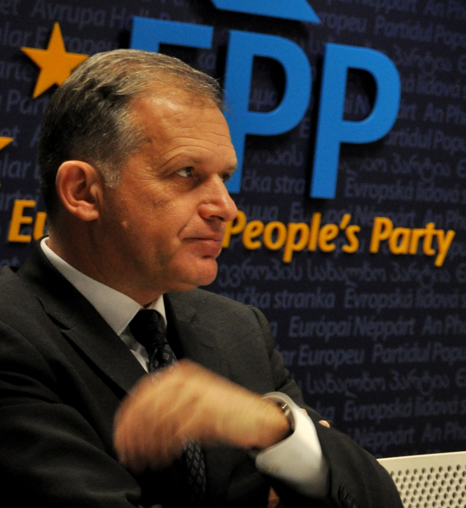 EPP Conference on Cyber Security